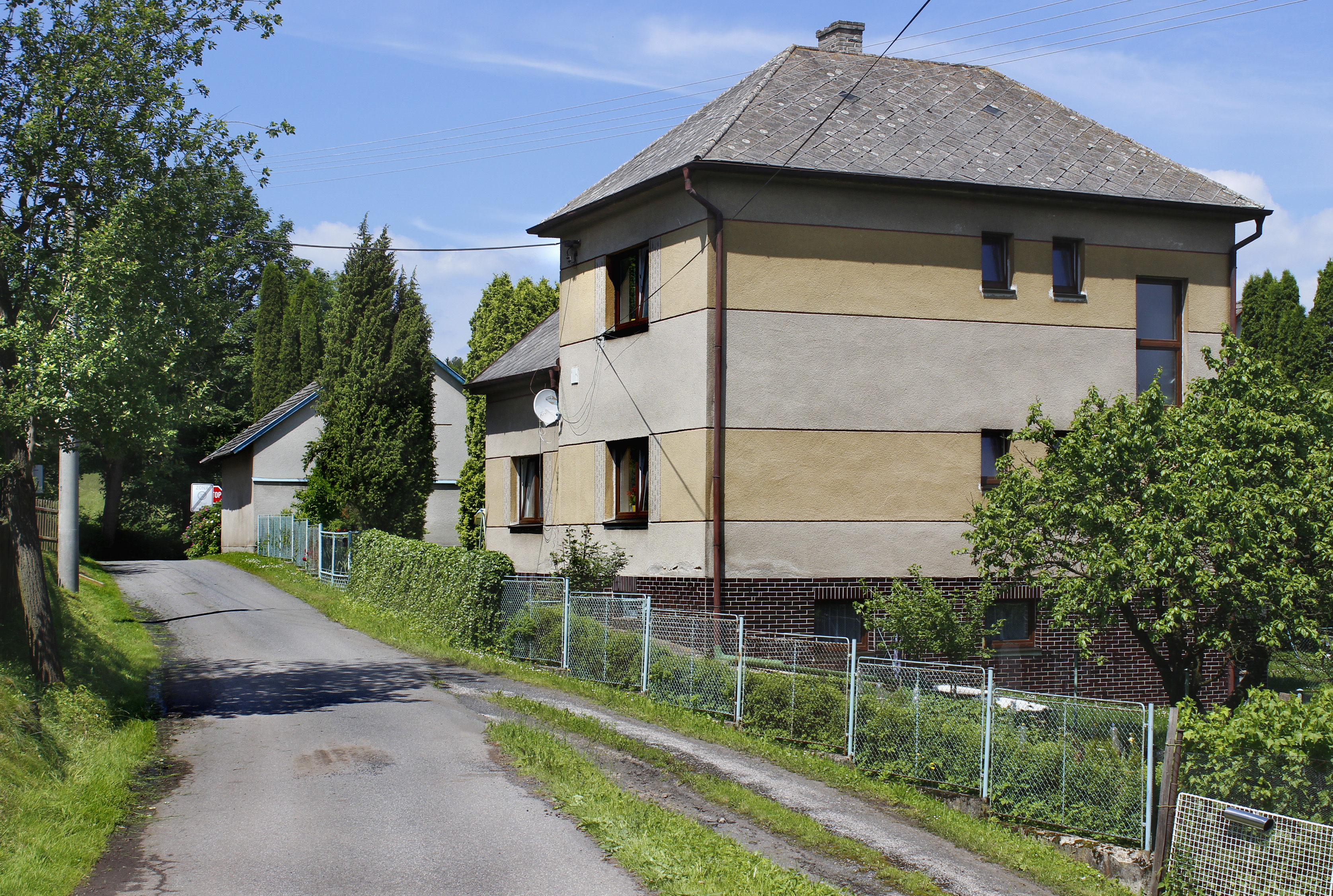 Lower part of Malá Víska village, Czech Republic